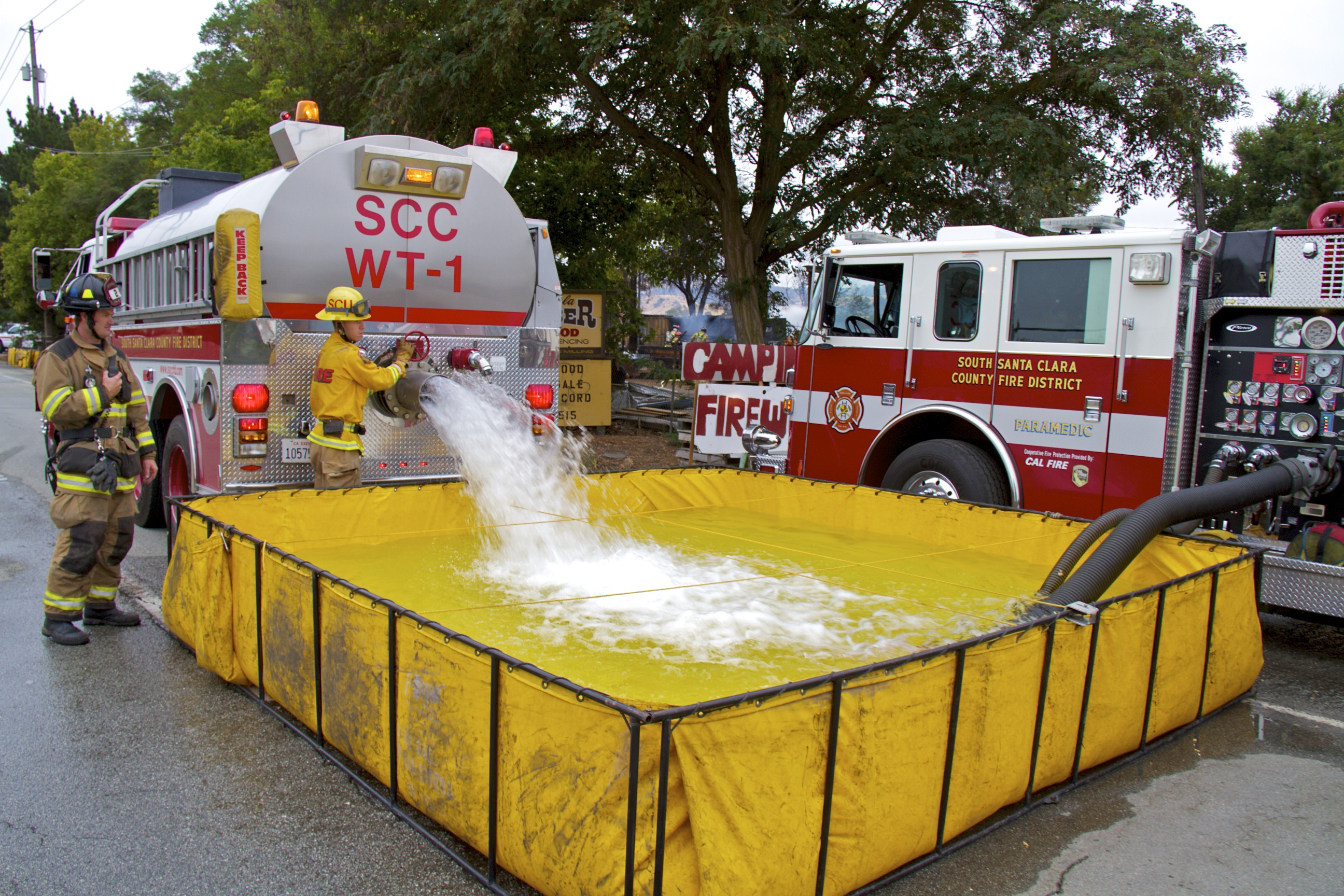 Fire Department using a Portable Water Tank at a fire - a Fire Department Water Tender drops a load of water into the portable water tank while a Fire Engine pumps water for use not fire. Storing the water in the portable water tank allows the Fwater Tender to leave and get another load of water.